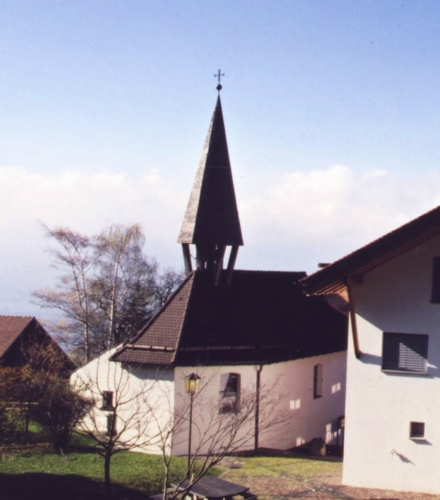 Chapel Saint Joseph in Planken, principality of Liechtenstein